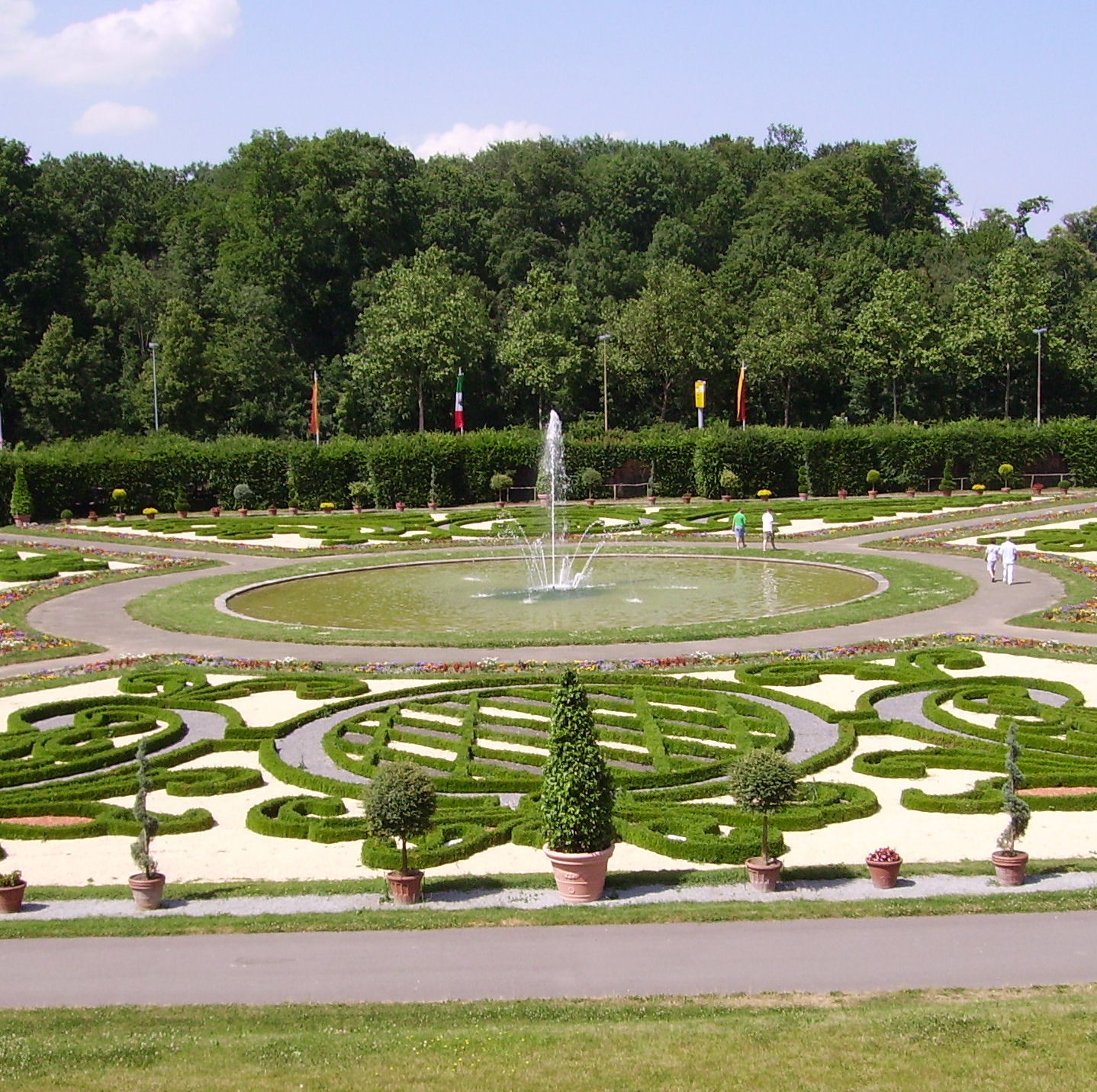 Baroque Garden at Schloss Ludwigsburg with parterres — at Springbrunnen Schloss, in Ludwigsburg, Germany. Source Own photography — Immanuel Giel 10:29, 26 June 2006 (UTC)